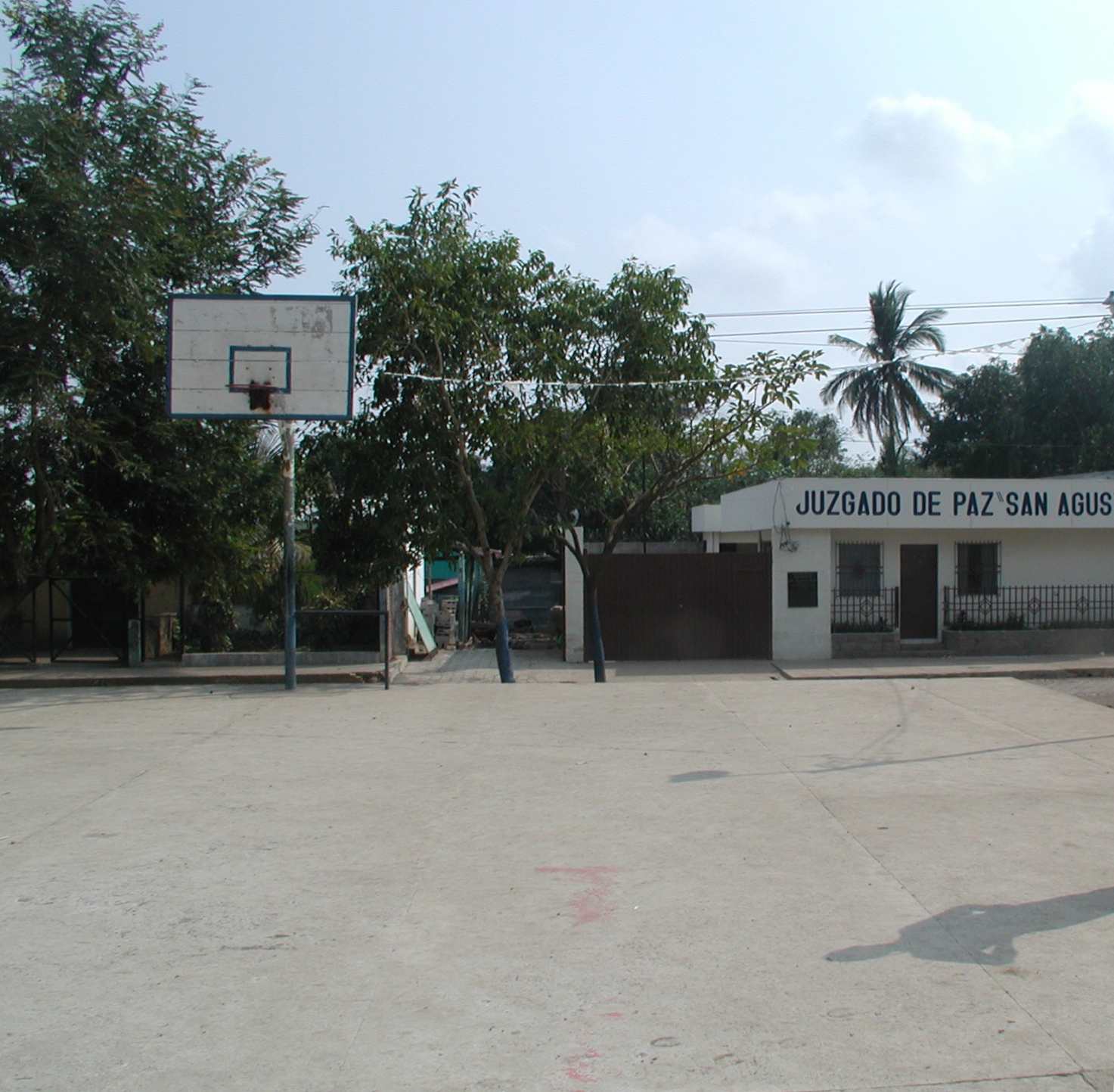 Courtyard in San Agustín, El Salvador in April 2003.